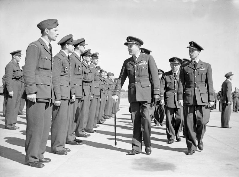 Air Marshal Sir John Slessor, the Air Member for Personnel, inspects Czecho-Slovak personnel during the farewell parade of the Czech squadrons at Manston, Kent. Behind, and to Slessor's left, is Air Vice-Marshal K du Janousek, Chief of the Czecho-Slovak Air Force in Great Britain.